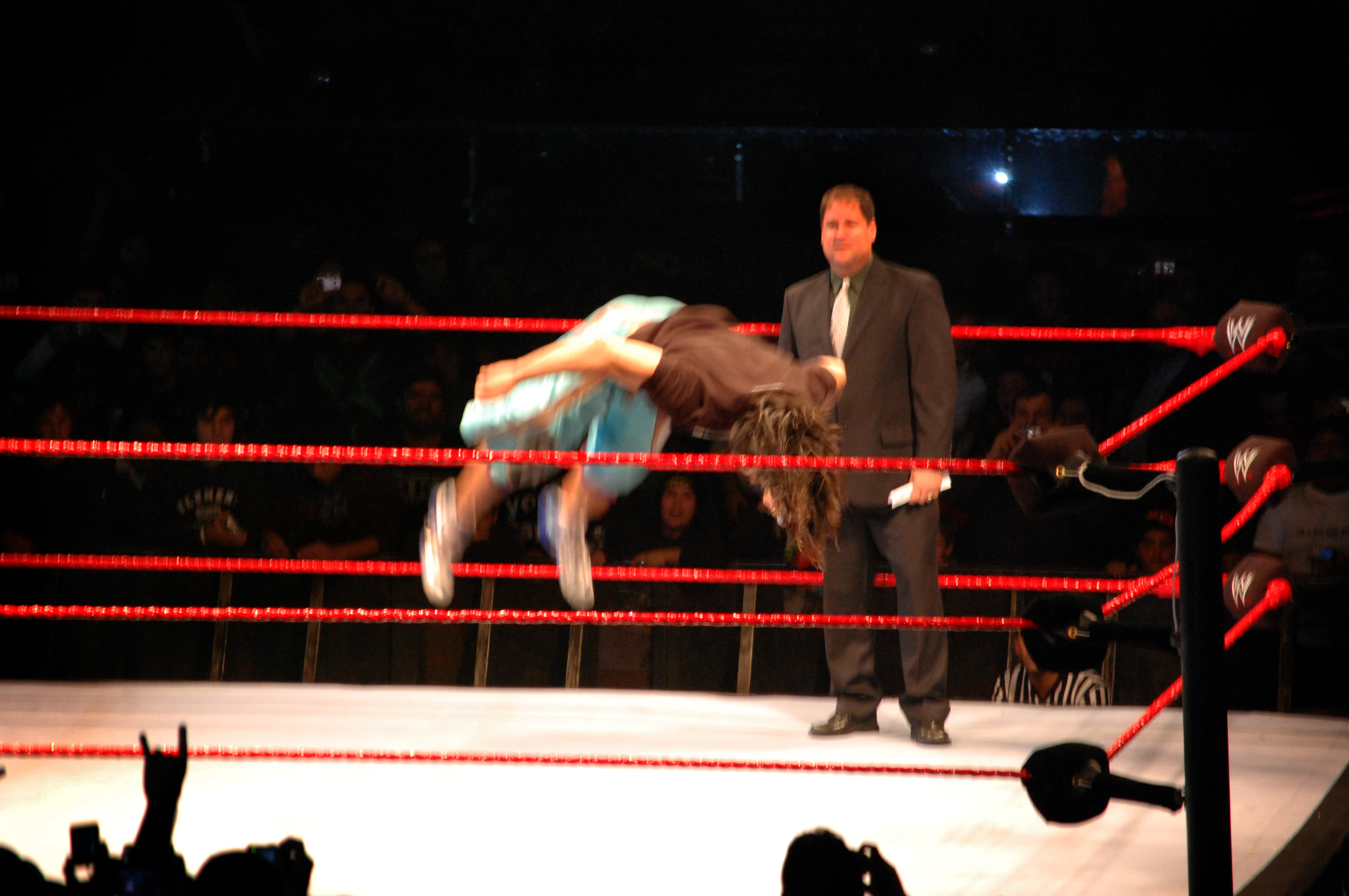 haciendo sus piruetas en el ring Paul London performing a backflip from the turnbuckle during his signature ring entrance at a WWE show in July 2008